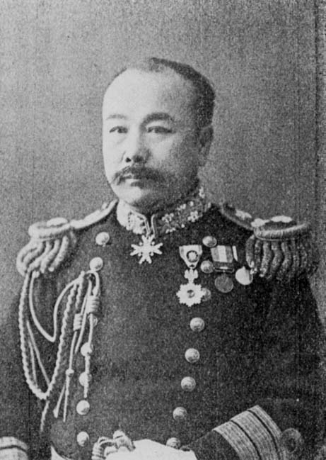 Mr. Kaneyuki Kimotsuki, chairman of the Board of Councillors of the Japanese Education Association.